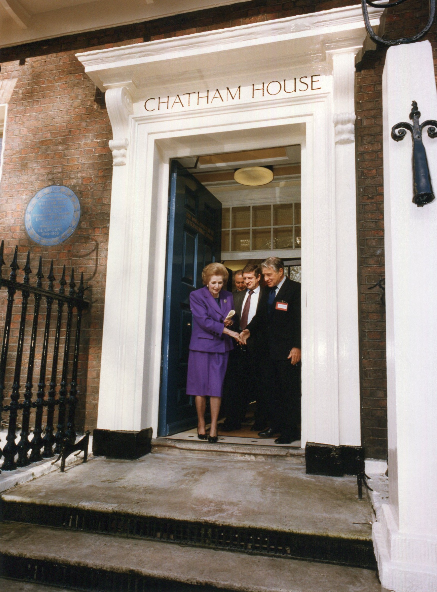 Lady Thatcher exiting Chatham House following a talk.